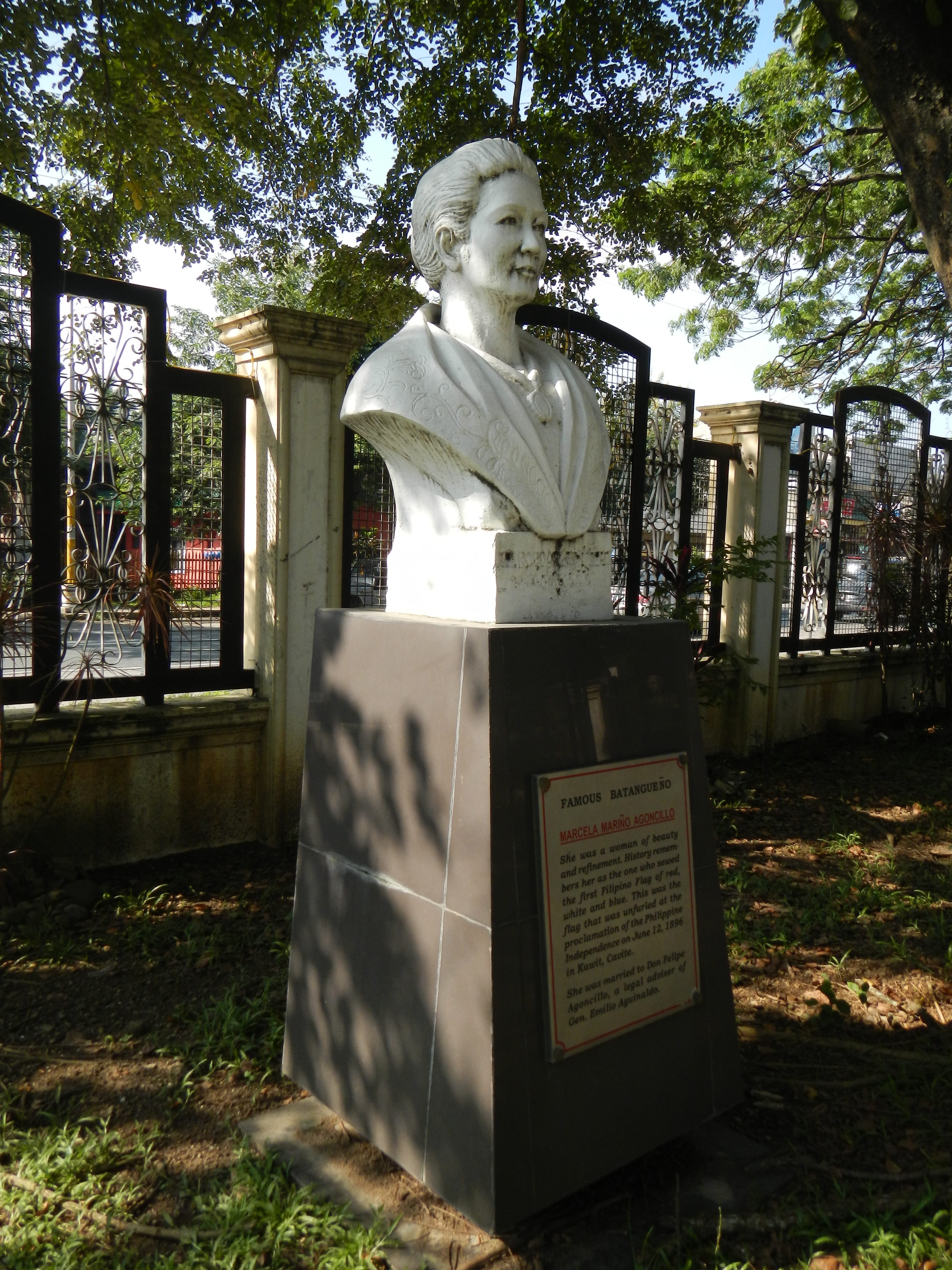 Upload Wizard photos -- (general description of landmarkds, town, church) -Historical Park and Laurel Park - (man-made parks at the Provincial Capitol Complex in Barangay Kumintang Ibaba - with a Multi-Purpose Center used as basketball court, volleyball court and dormitory, for a seminar and meeting venues; the sculpture work entitled "Diwa ng Batangeuno" done in bronze/steel by Ed Castrillo portrays the vitues of the Batanguenos such as nobility, industriousness, beauty and wisdom[1]) - Monuments, Busts of - Maria Orosa[2] Maria Orosa e Ylagan; Claro M. Recto[3]; Dr. Baldomero Roxas [4]; Feliciano Leviste[5]; Dr. Deogracias V. Villadolid - Profiles of Filipino Fisheries Scientists - University of the Philippines Los Baños Limnological Research Station[6]; Jose Diokno[7] - at the - Batangas [8] Provincial Capitol [9] Coordinates: 13°45'55"N 121°3'50"E Batangas City (the largest and capital city of the Province of Batangas, the "Industrial Port City of Calabarzon", 2010 census, the city has a population of 305,607 people).